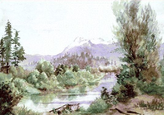 Josephine Crease, Watercolour Landscape Artist - maybe at latest 1947